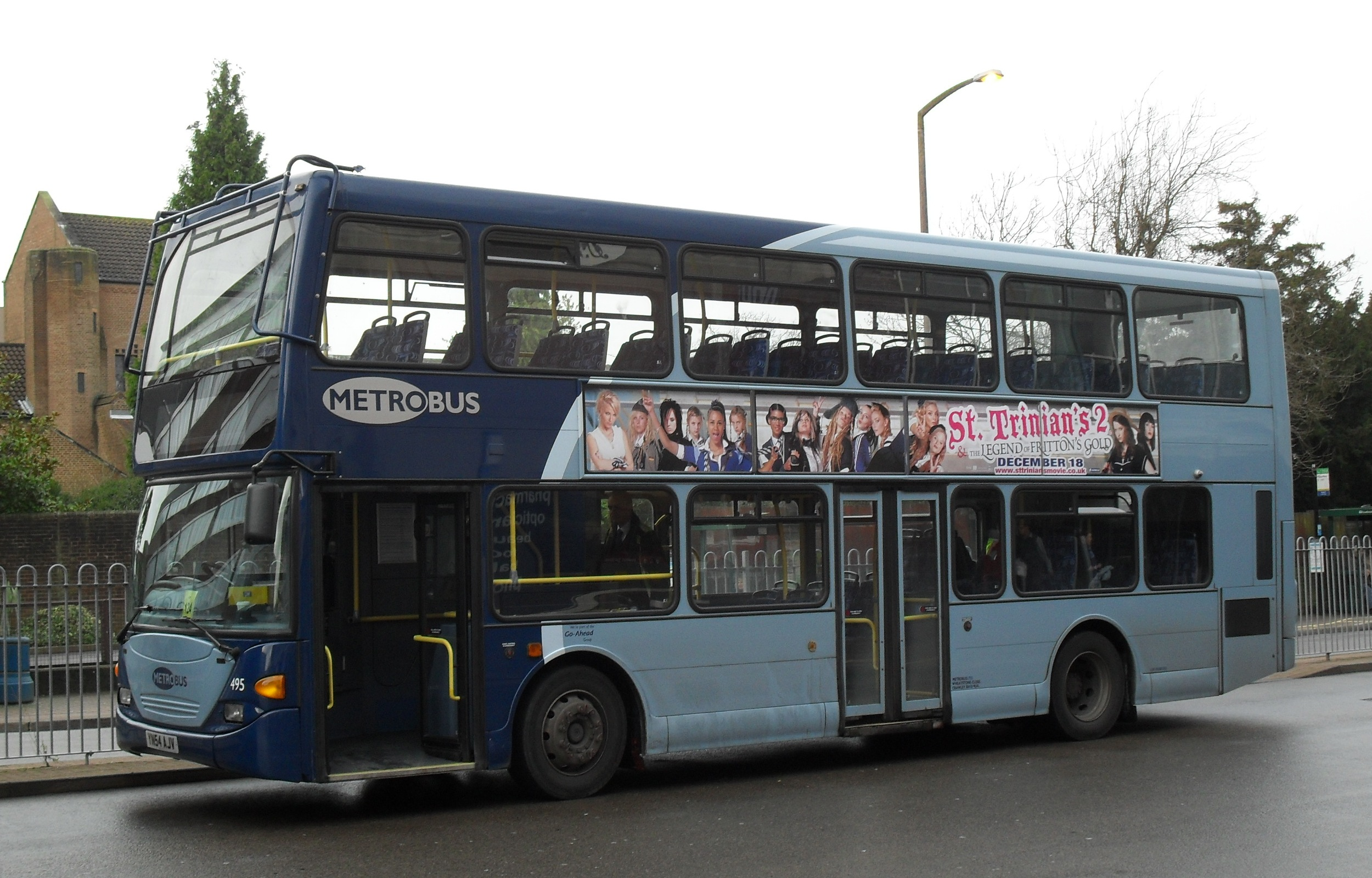 Metrobus double-decker bus number 495 (YN54 AJV), a Scania N94 OmniDekka, in Crawley, West Sussex, England. This bus company has a depot in Crawley and operates almost all the town's local and long-distance services. Taken at the bus station in Friary Way in the town centre.